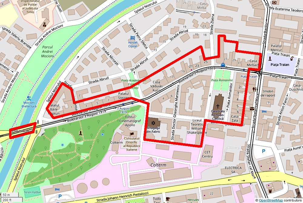 Map of heritage site "Ansamblul urban Fabric (II)", Timișoara, Romania